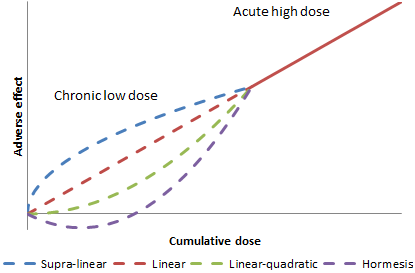 Radiation effects, based on Occupational and Environmental Health: Recognizing and Preventing Disease and Injury by Levy et al.